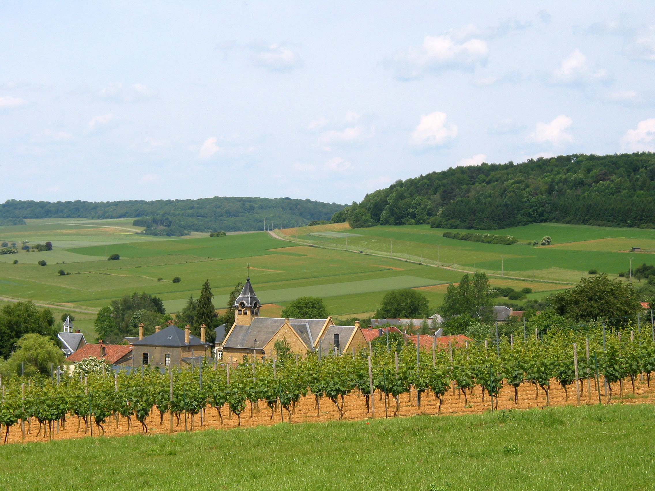 Torgny (Belgium), a grape field of the village.